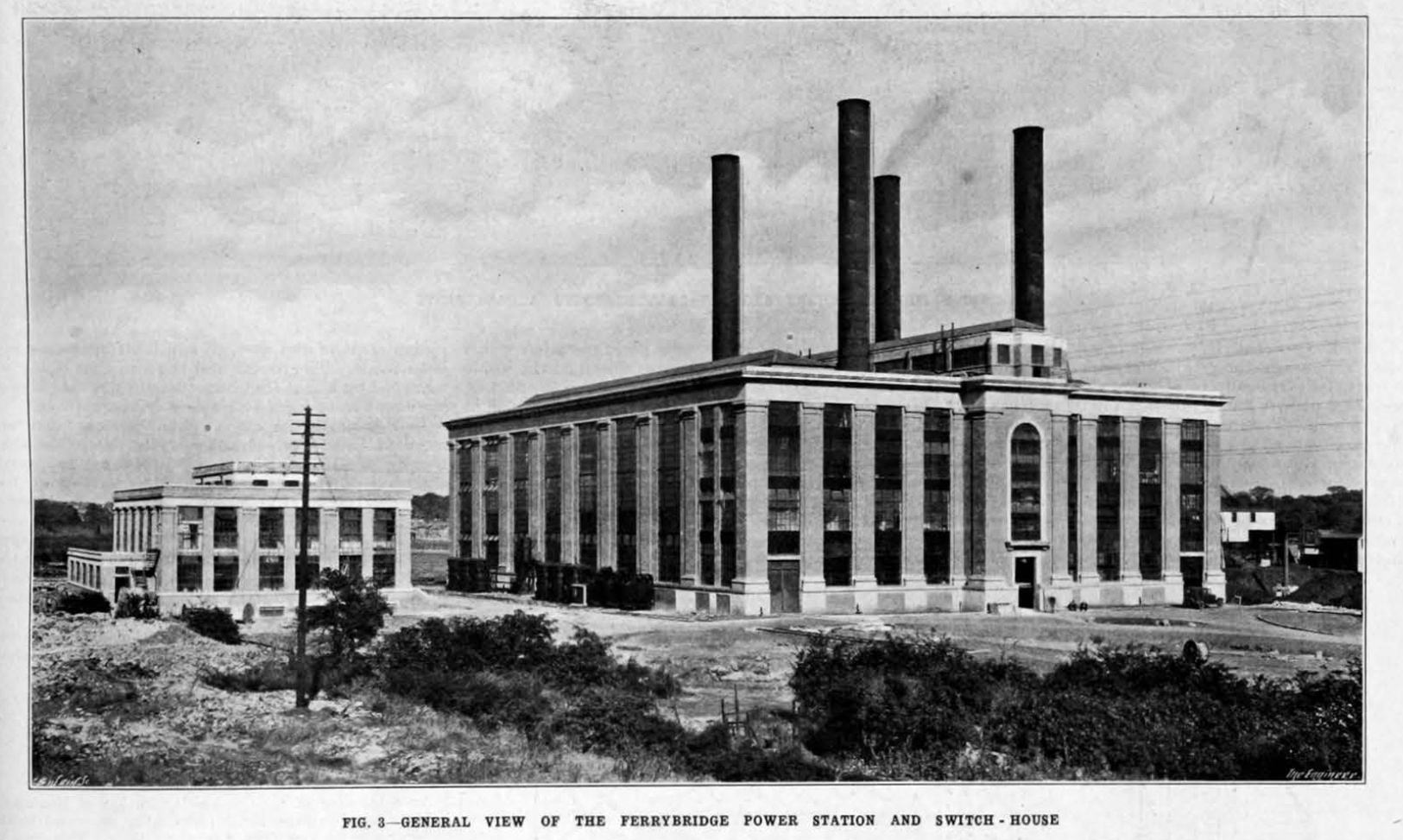 From "The Ferrybridge Station of the Yorkshire Electric Power Company (No.1)" in The Engineer, 28 Oct. 1927, p.489 (volume =144)